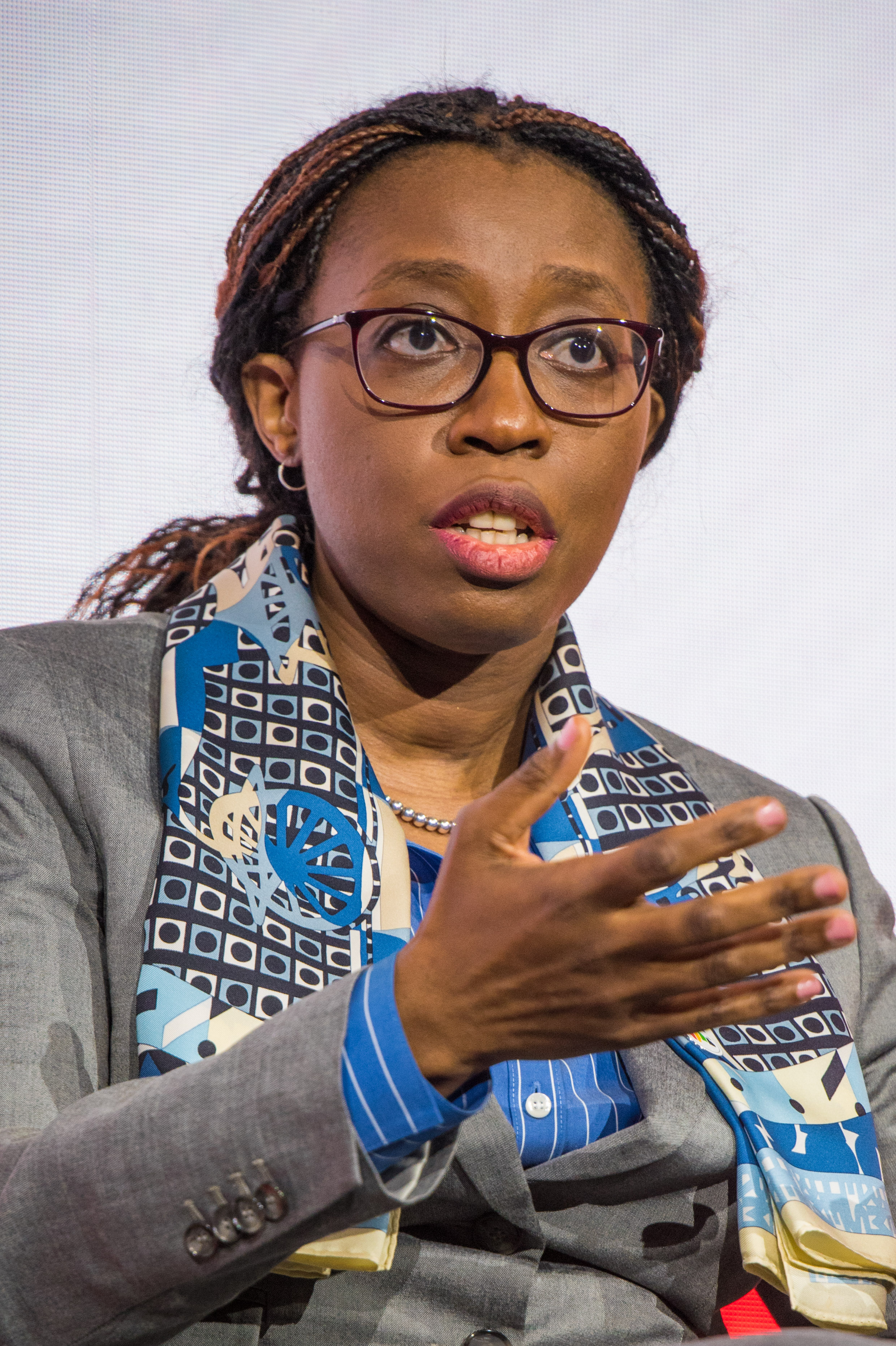 Dr Vera Songwe, Executive Secretary, United Nations Economic Commission for Africa, speaking at the UK-Africa Investment Summit in London, 20 January 2020.